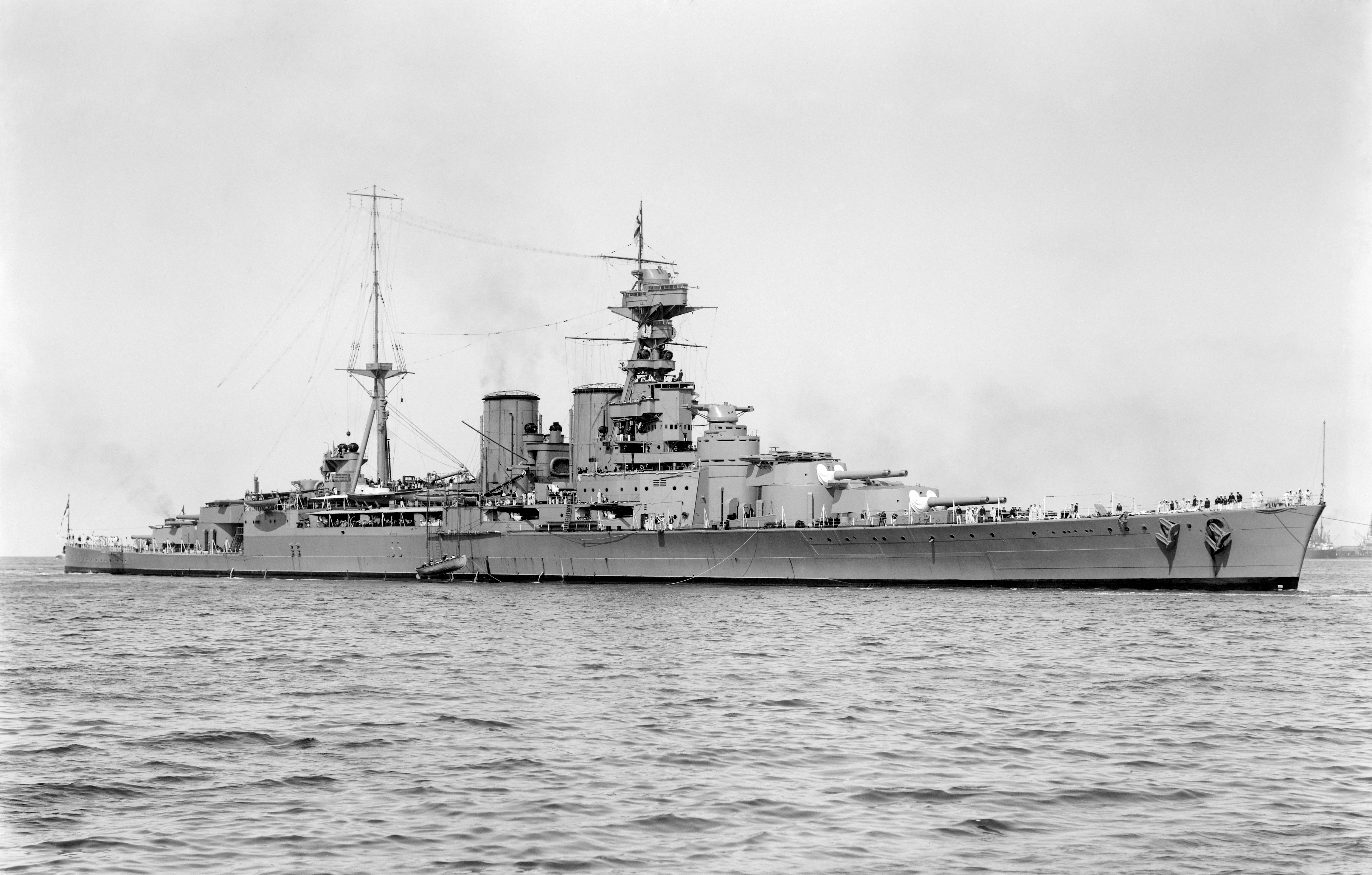 Partial restoration (spots removed, but no levels adjustment) of a 1924 photo by Allan C. Green of HMS Hood (pennant number 51), the last battlecruiser built for the Royal Navy. For other versions, see below.